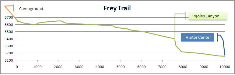 Trail elevation diagram of the Frey Trail at Bandelier National Monument, Los Alamos, New Mexico